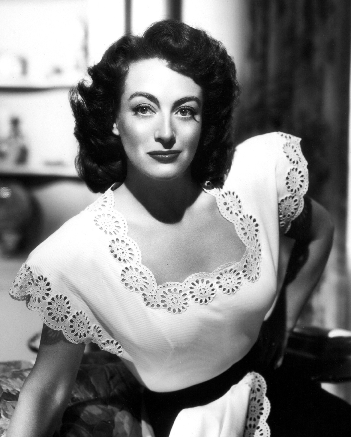 Joan Crawford in a publicity photo for Humoresque (1946)